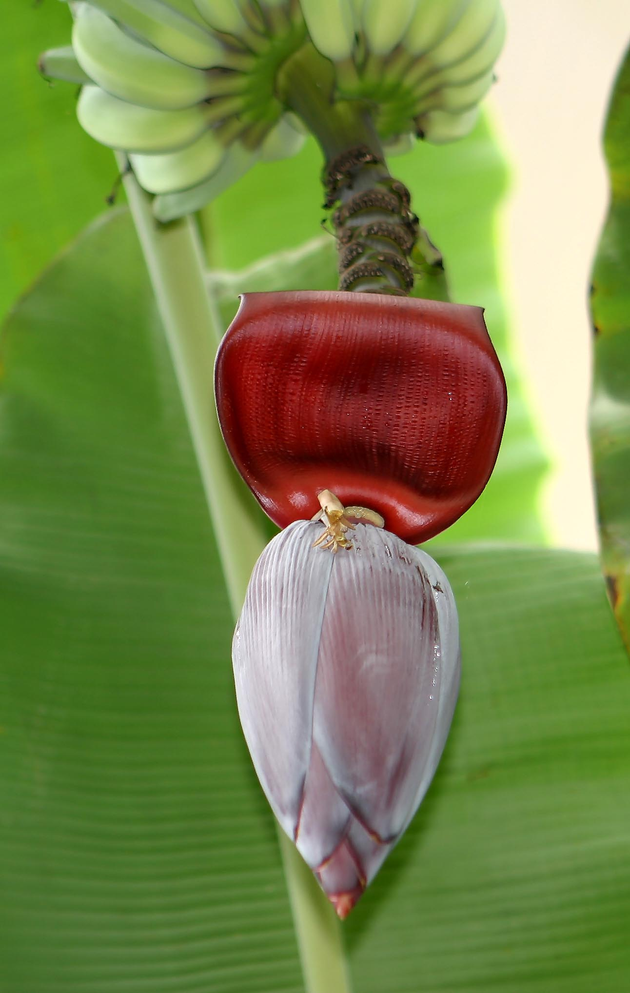 self made picture of banana flower, inflorescences and fruits. Taken April 2008.